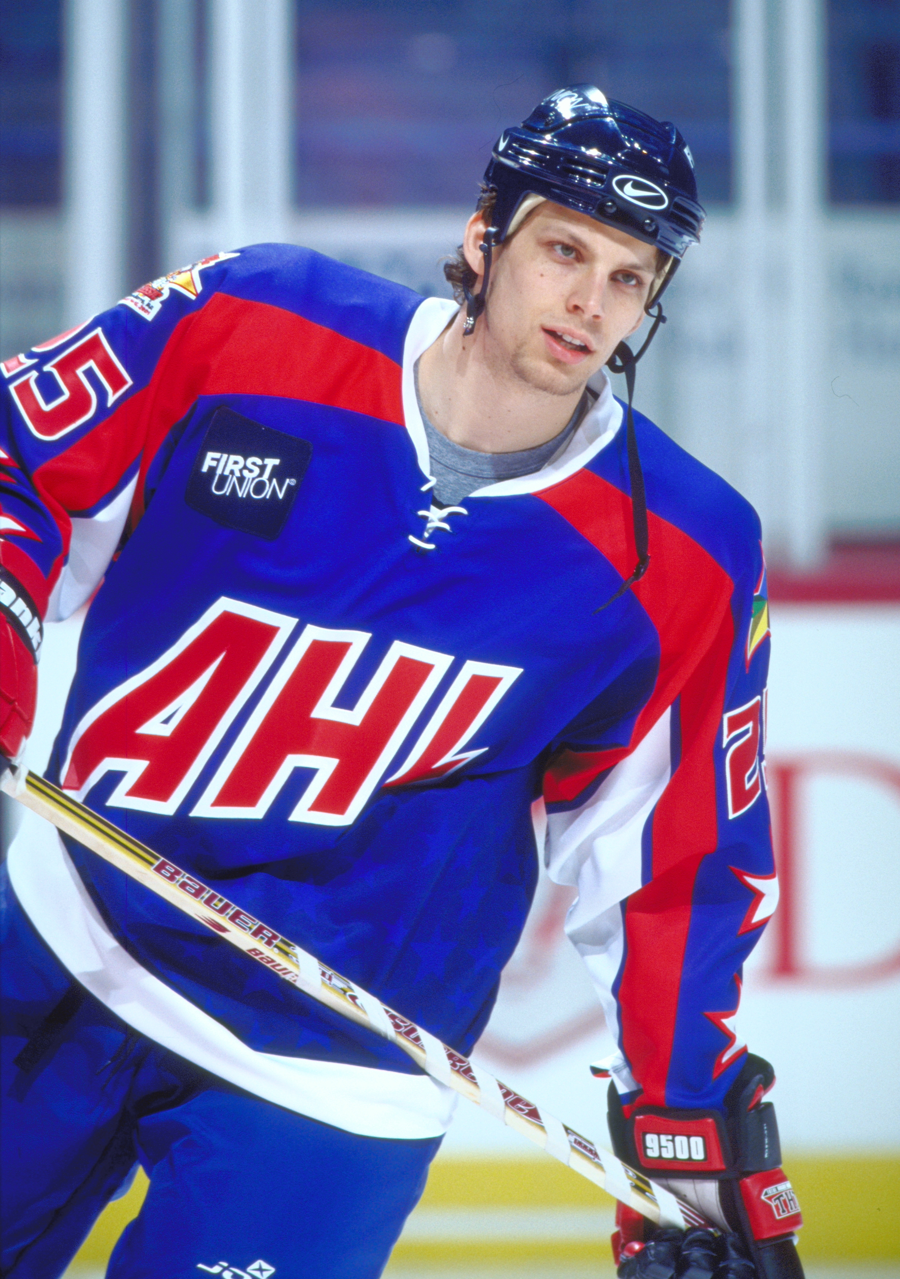 hhof0337